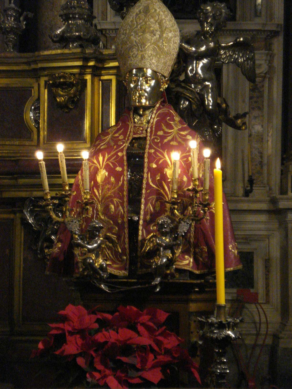 St Gennaro's bust in Tesoro San Gennaro